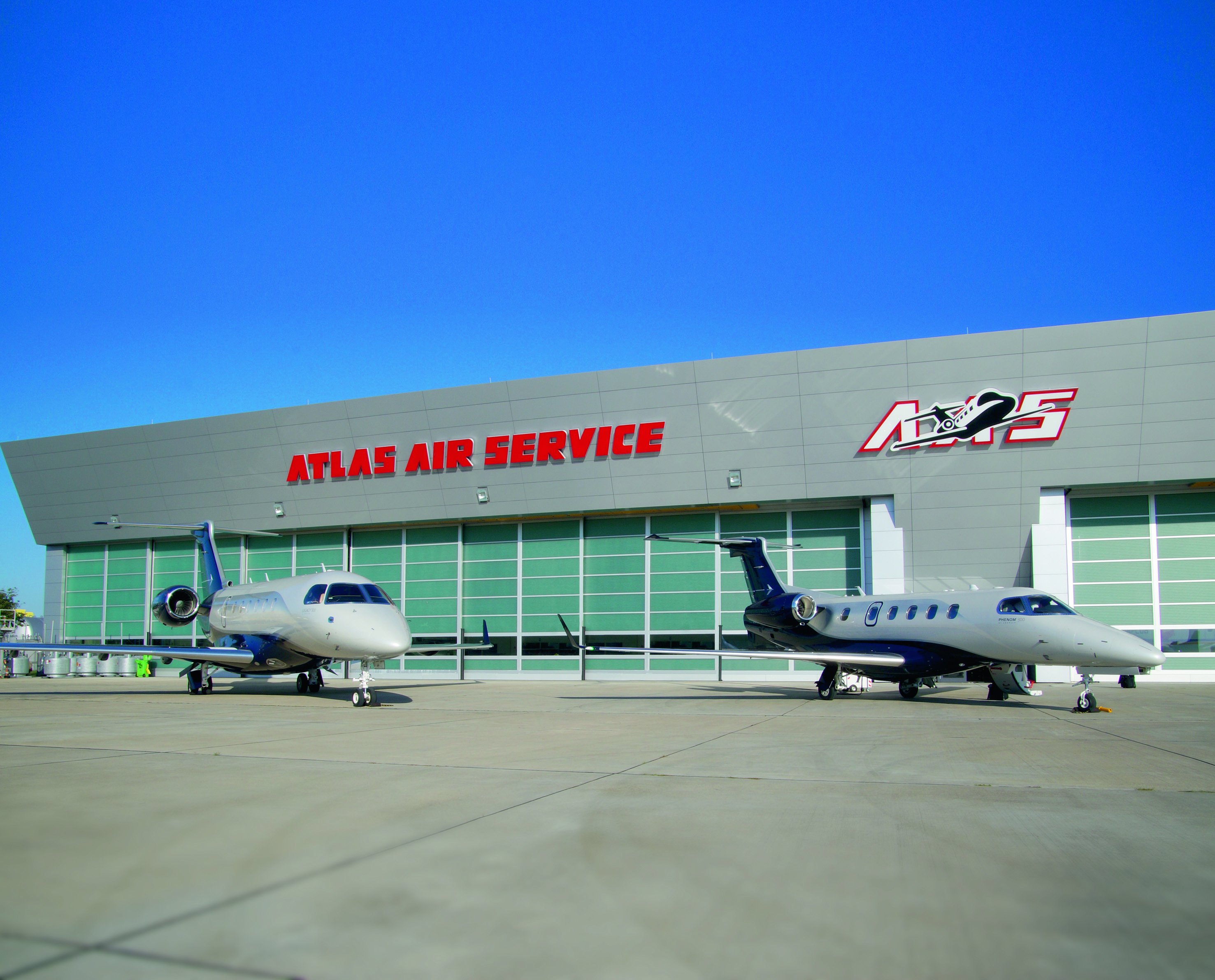 Atlas Air Service maintenance facility in Bremen with Embraer Legacy 500 (L) and Phenom 300 (R)